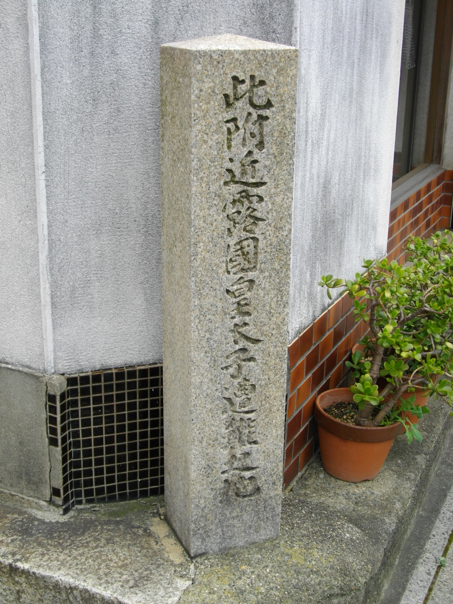 Ootsu Incident Monument